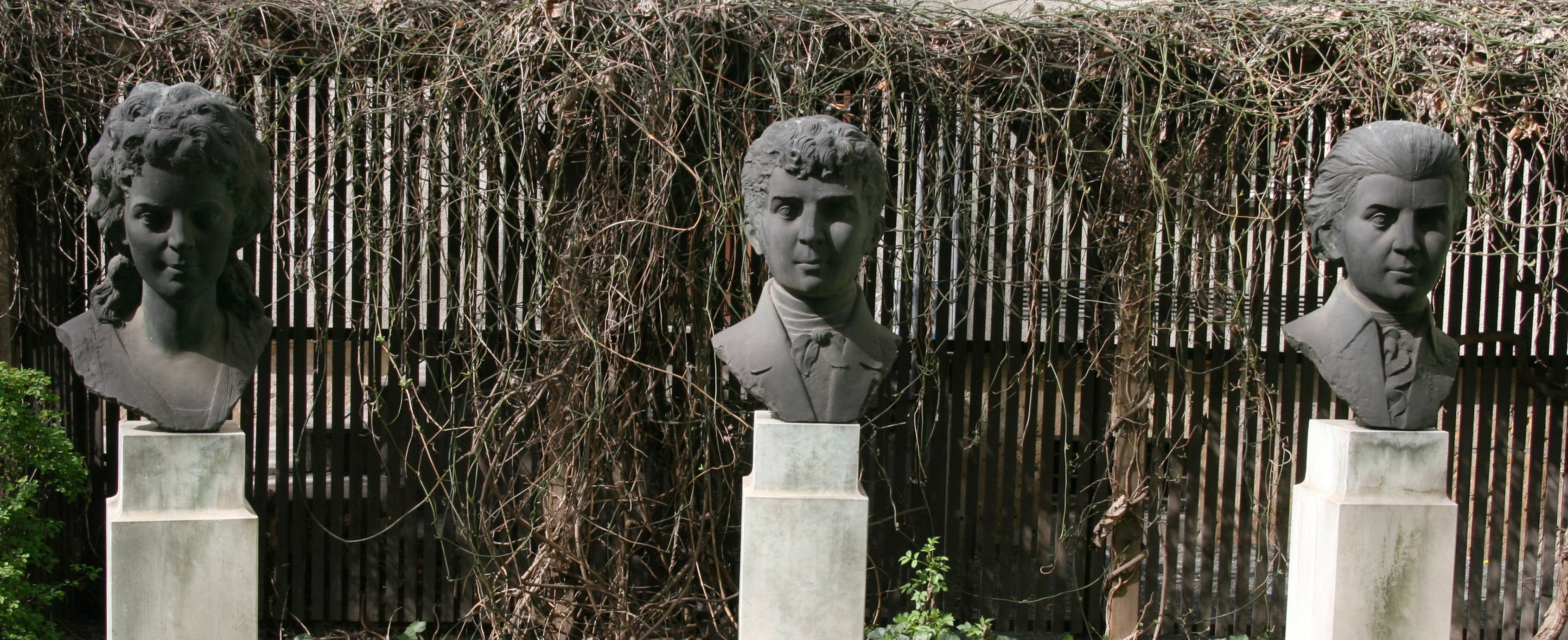 The busts of Caroline Schelling (divorced Schlegel), August Wilhelm Schlegel und Karl Wilhelm Friedrich Schlegel (LTR) in front of the Museum of German Early Romanticism in Jena in April 2011.